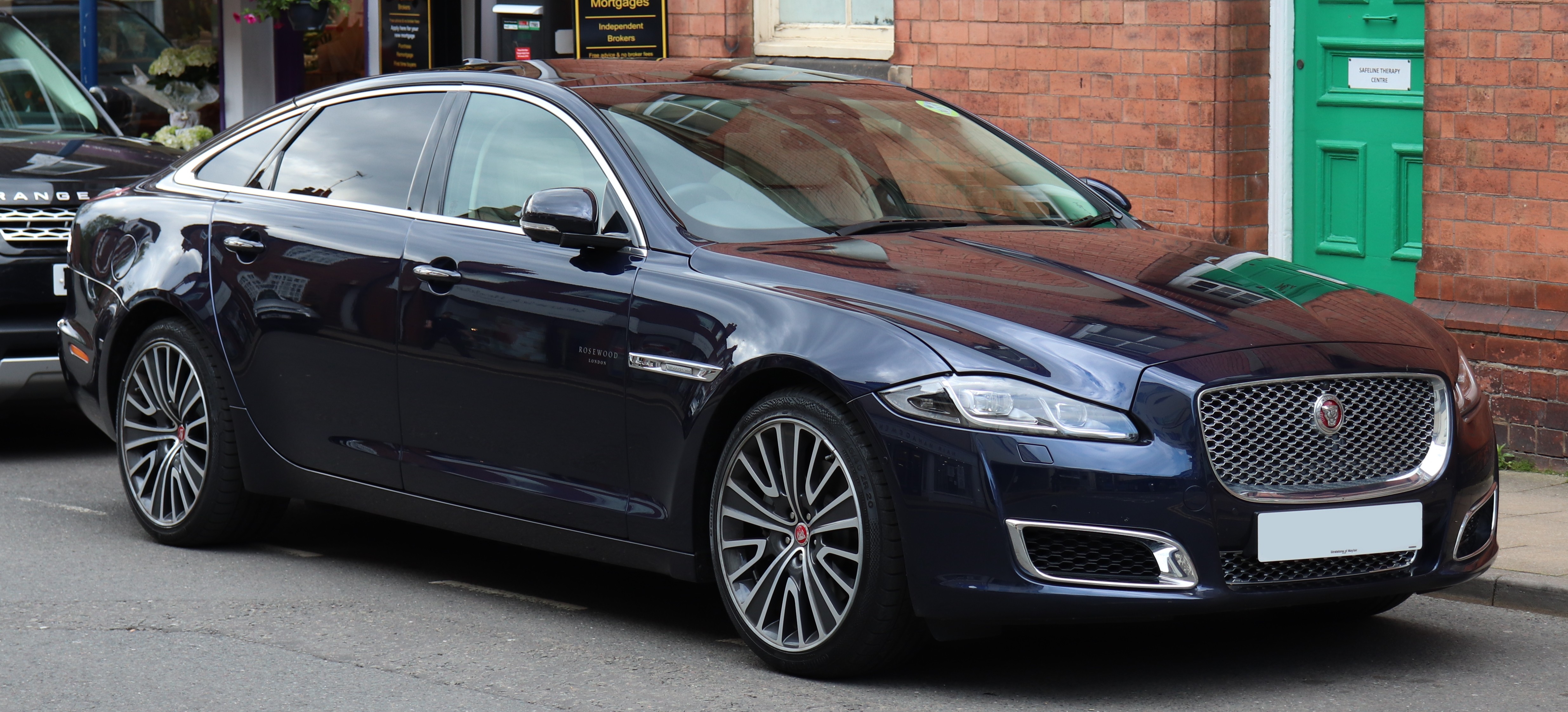 2018 Jaguar XJL Autobiography Diesel V6 Automatic 3.0 Front Taken in Warwick